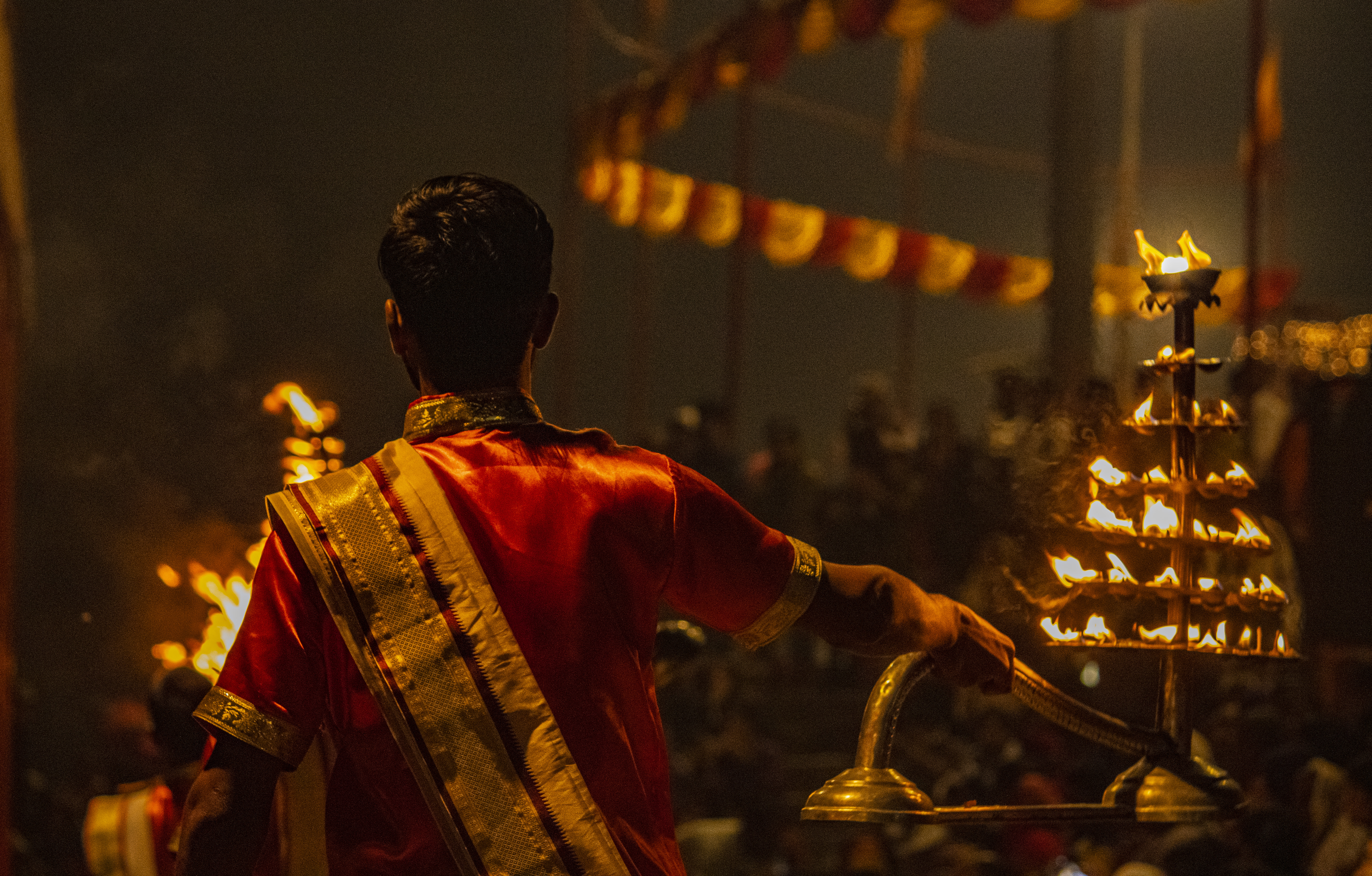 Ganga Aarti, a ceremony in the divinity of Goddess Ganga, at Varanasi among the three different cities where it is being performed—Haridwar, Rishikesh and Varanasi itself; a young Pandit holding the lamp of fire one fine evening in the banks of Ganga. This photo has been taken in the country: India